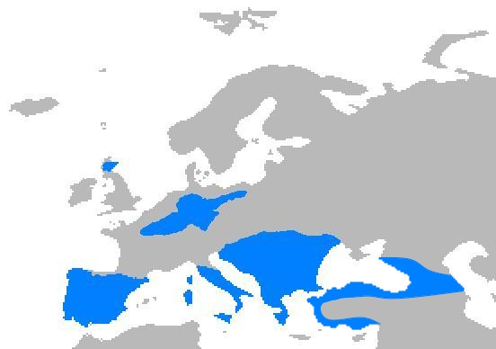 Based upon map in "Däggdjur: Alla Europas arter", Anders Bjärvall & Staffan Ullström, p. 163, W&W 1985, ISBN 91-46-14896-5